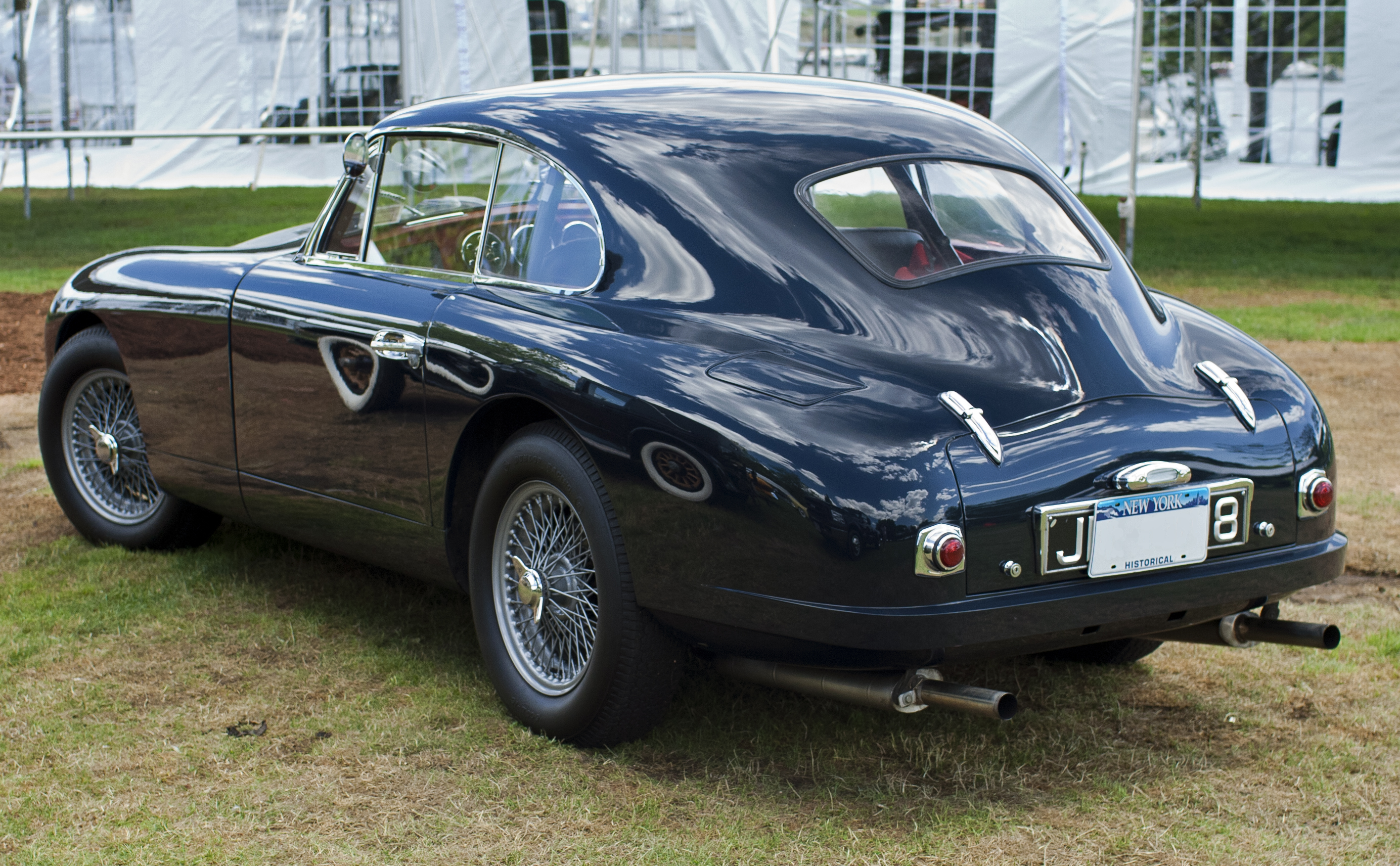 1953 Aston Martin DB2, upgraded to light competition specifications with Vantage engine modifications. Chassis number LML/50285 and engine number LB6B/50640, for sale at the June 3 2012 Bonham's Auction at the Greenwich Concours d'Elegance.